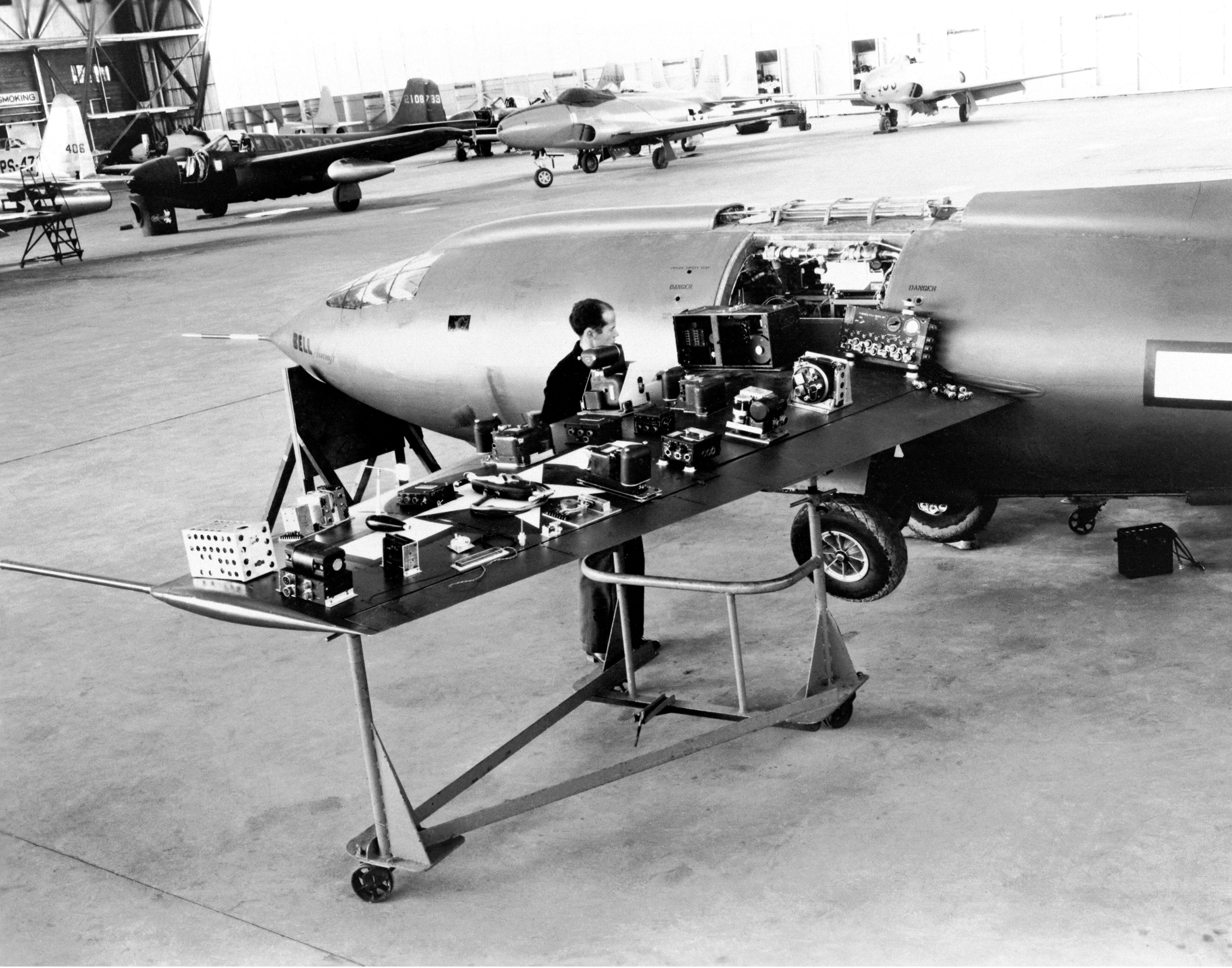 A Bell Aircraft Corporation X-1 series aircraft on display at an Open House at NACA Muroc Flight Test Unit or High-Speed Flight Research Station hangar on South Base of Edwards Air Force Base, California. (The precise date of the photo is uncertain, but it is probably before 1948.) The instrumentation that was carried aboard the aircraft to gather data is on display. The aircraft data was recorded on oscillograph film that was read, calibrated, and converted into meaningful parameters for the engineers to evaluate from each research flight.